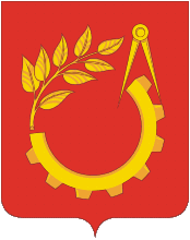 Balashikha (Moscow oblast), coat of arms (1999)